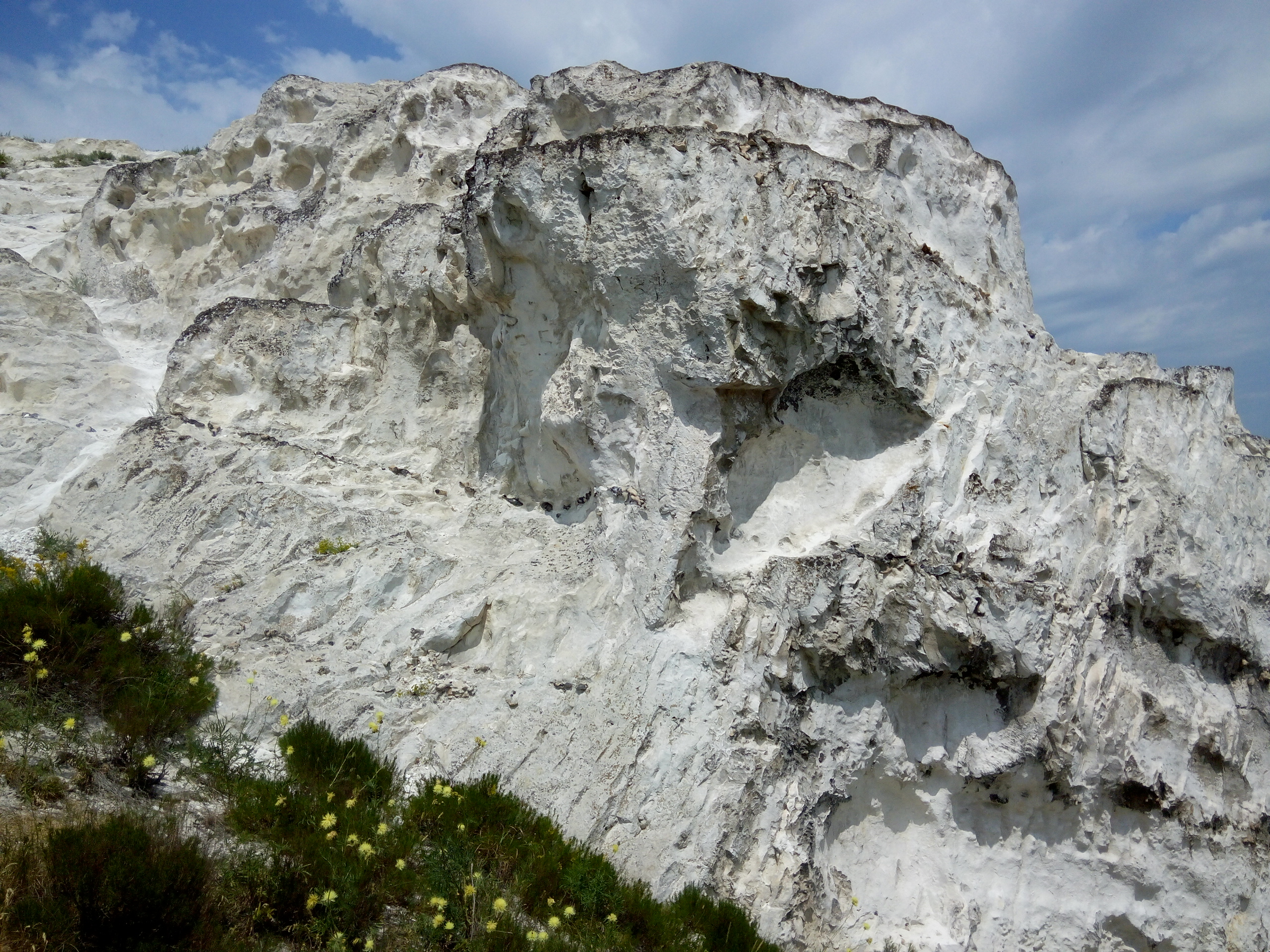 A layer of silica concretions in the rocky outcrop of the upper chalk at Bilokuzmynivka, Ukraine